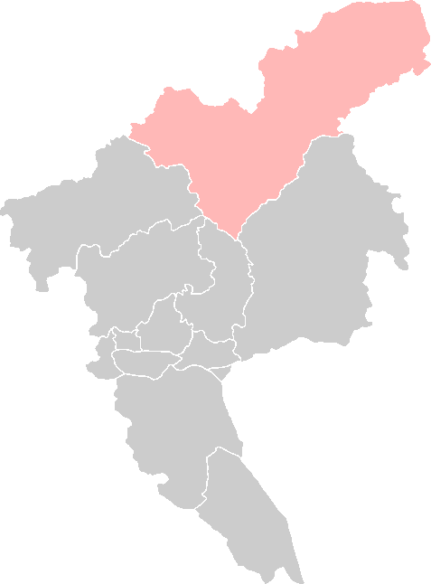 A Blank Map of Guangzhou Map